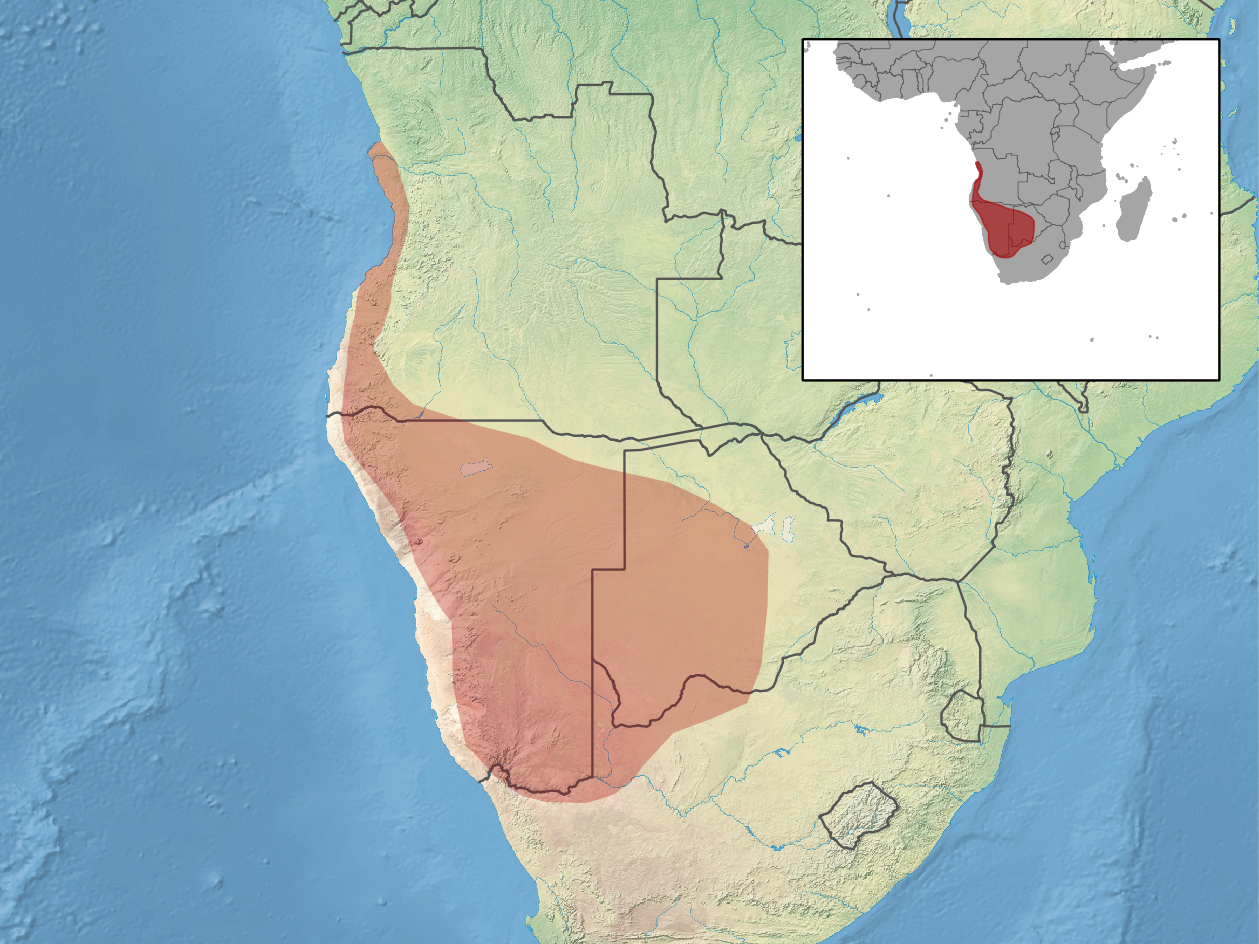 geographic distribution of Thallomys nigricauda